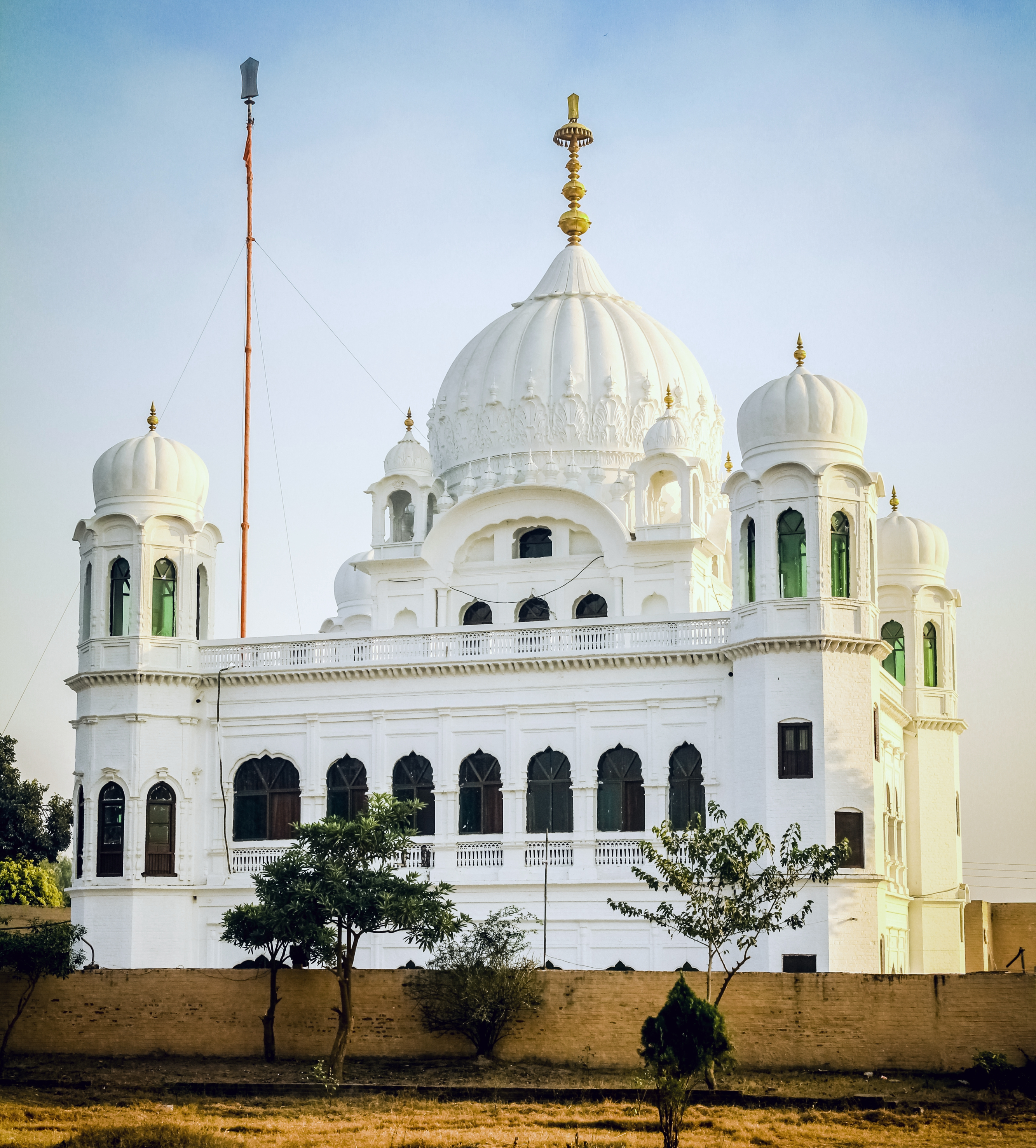 Shrine of Guru Nanak